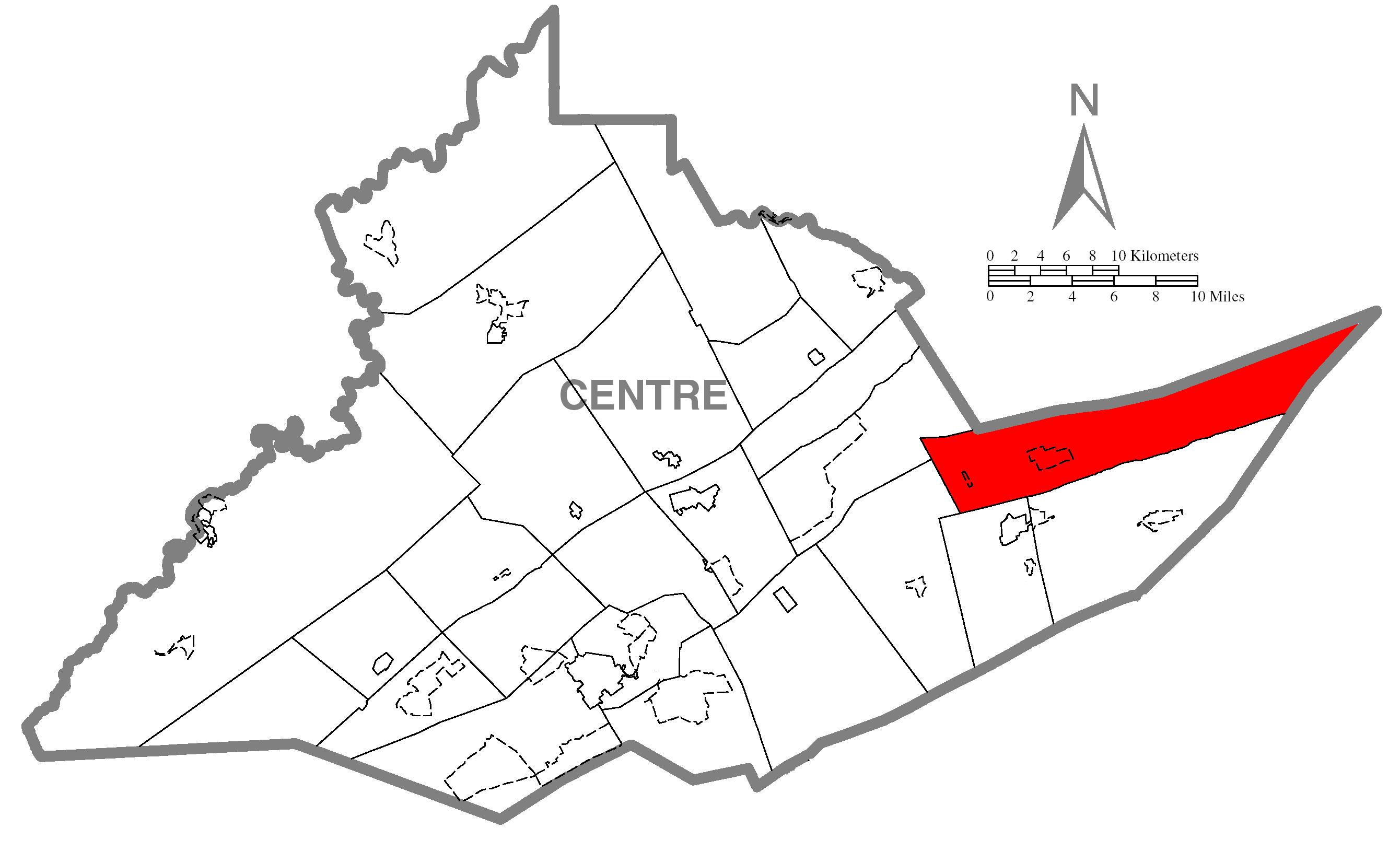 A map of Centre County showing Miles Township, Pennsylvania (alternate) highlighted on the map.